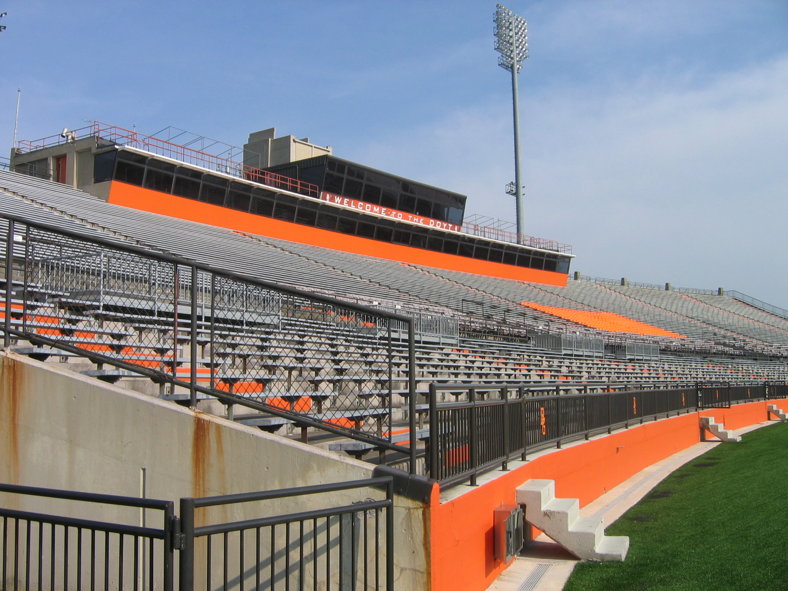 Football & Basketball Facilities Bowling Green Football Stadium